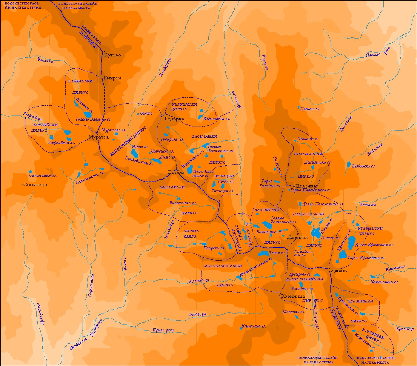 Map of the lakes in Pirin mountain, Bulgaria